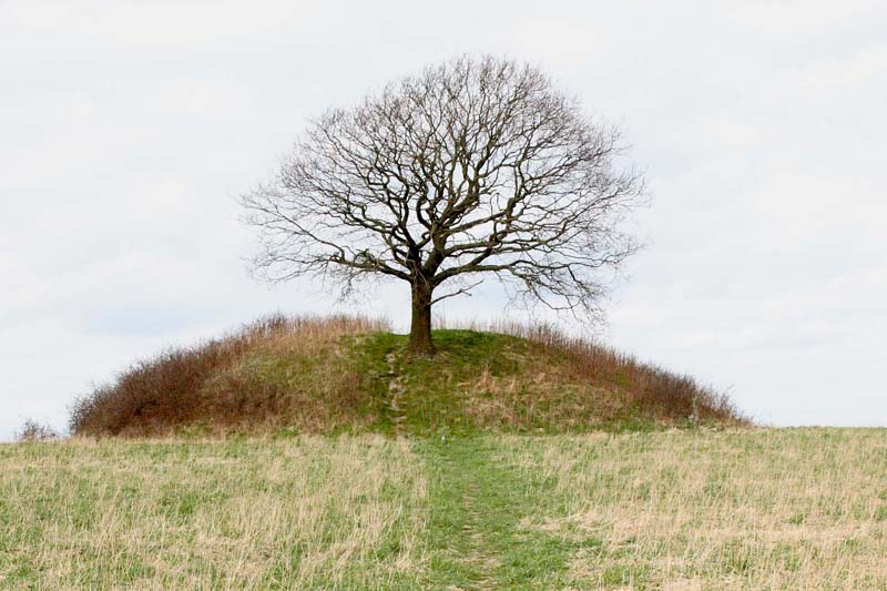 Mysselhøj, a danish gravemound from the early bronze age situated close to the danish town Roskilde. Photo taken by Jørgen Larsen, 2007-04-07.